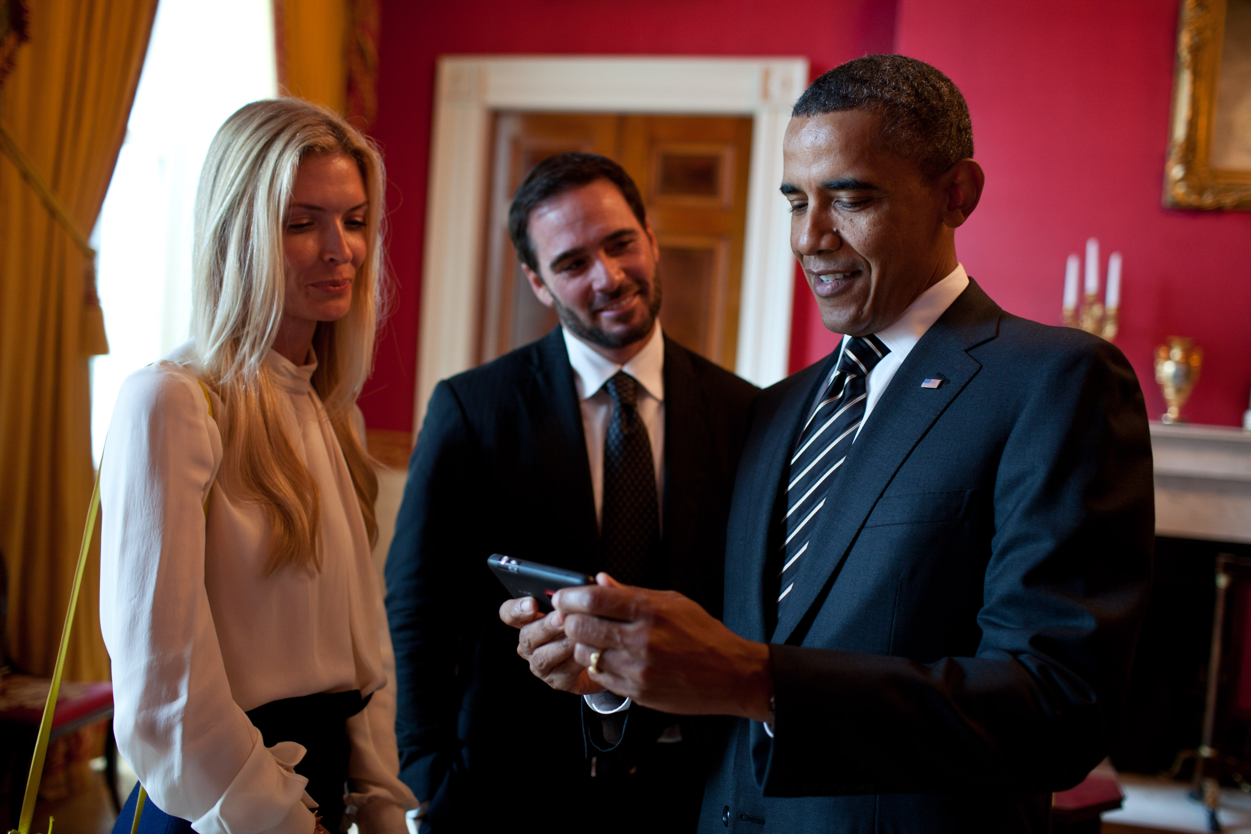 President Barack Obama visits with 2010 NASCAR Champion Jimmie Johnson and his wife, Chandra, in the Red Room of the White House before a ceremony to honor Johnson’s NASCAR Sprint Cup Series Championship, Sept. 7, 2011. (Official White House Photo by Pete Souza)